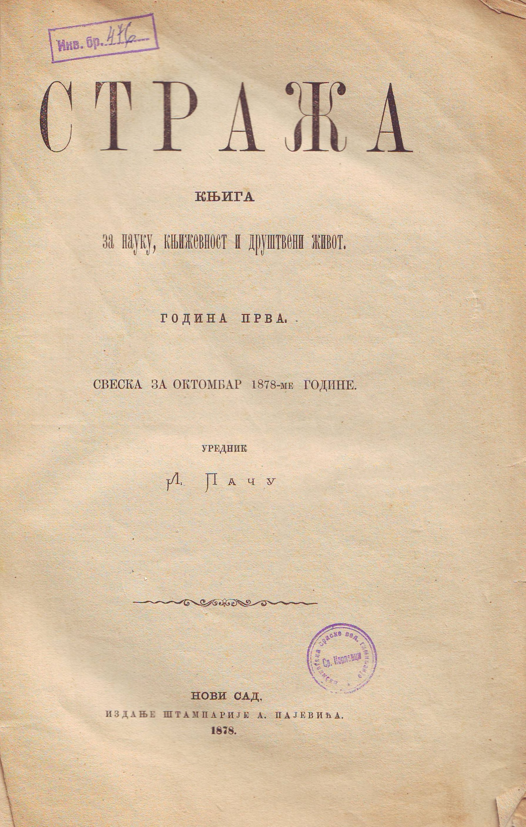 Cover of the journal for science, literature and social life Straža. October 1878 issue. Srpski (latinica): Naslovna strana lista za nauku, književnost i društveni život Straža. Izdanje za oktobar 1878. godine.